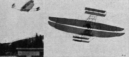 Two images of the airplane Baddeck No. 2.